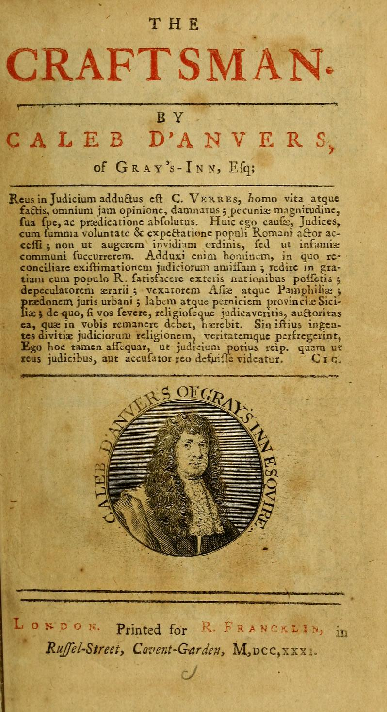 Title page of The Craftsman, vol I, first published 1726, collected and bound 1731.